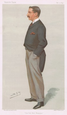 Caricature of Lord FS Hamilton MP. Caption read "The Pall Mall Magazine".